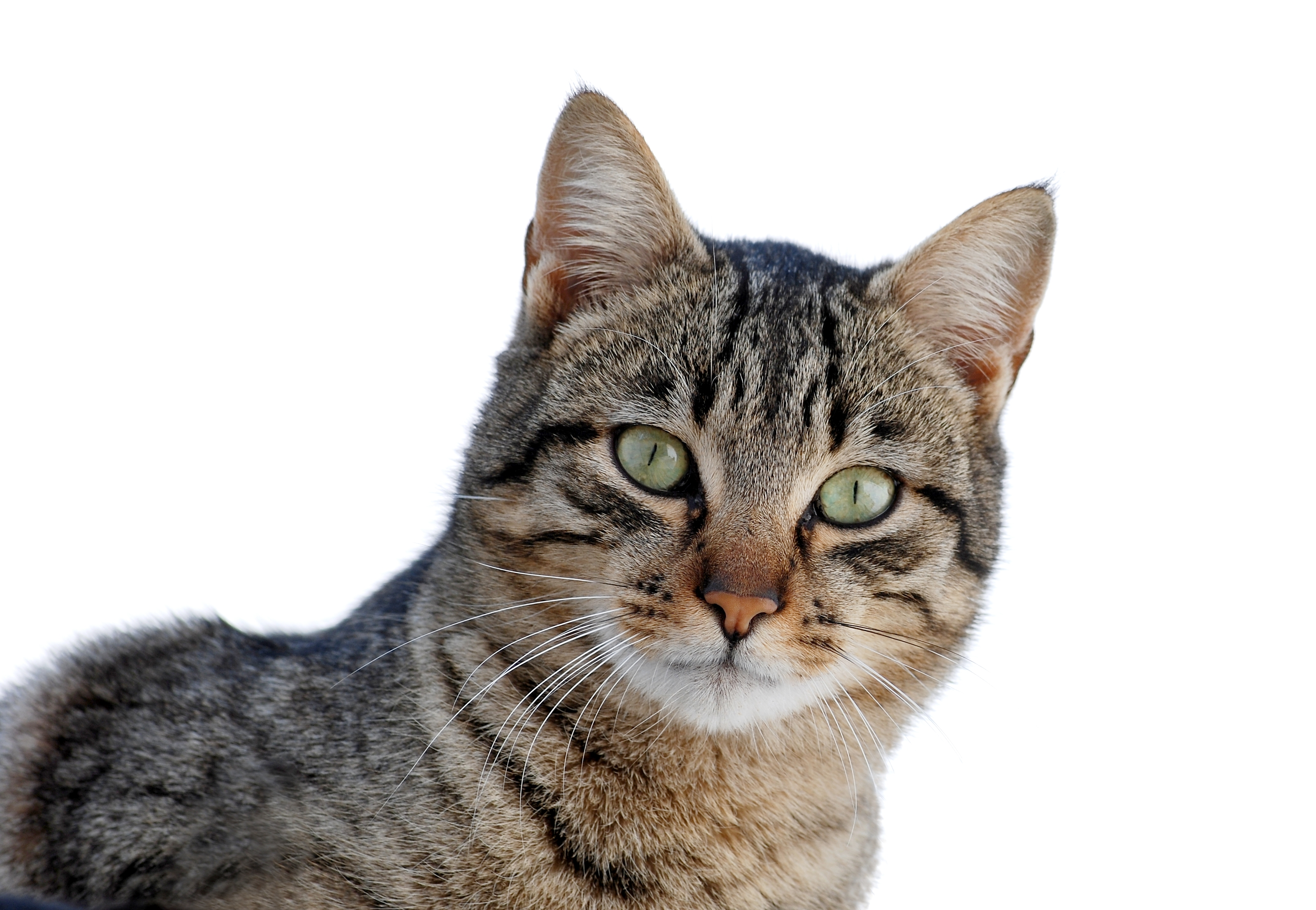 A young male cat